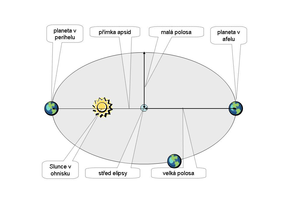 Some elements of orbit with Czech descriptions.